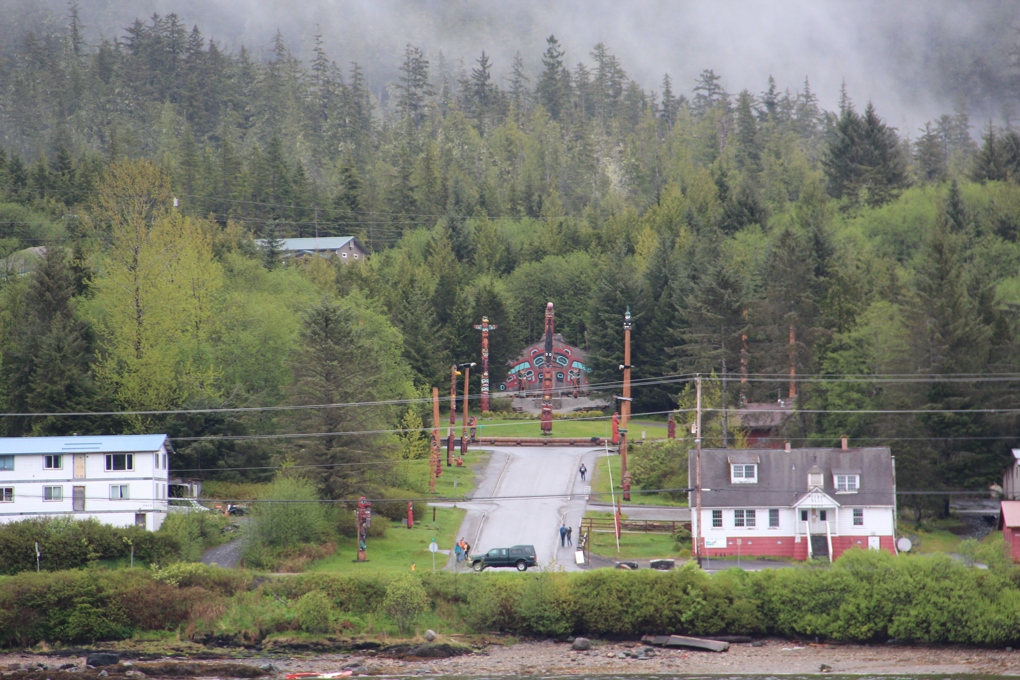 View of the Saxman totem park, 2013